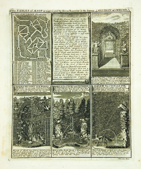 Versailles Illustrated, or Divers Views of the Several Parts of the Royal Palace of Versailles; as likewise of all the Fountains, Groves, Parterras, ye Labyrinth & other ye most Beautiful Parts of the Gardens.... London: John Bowles & Son.